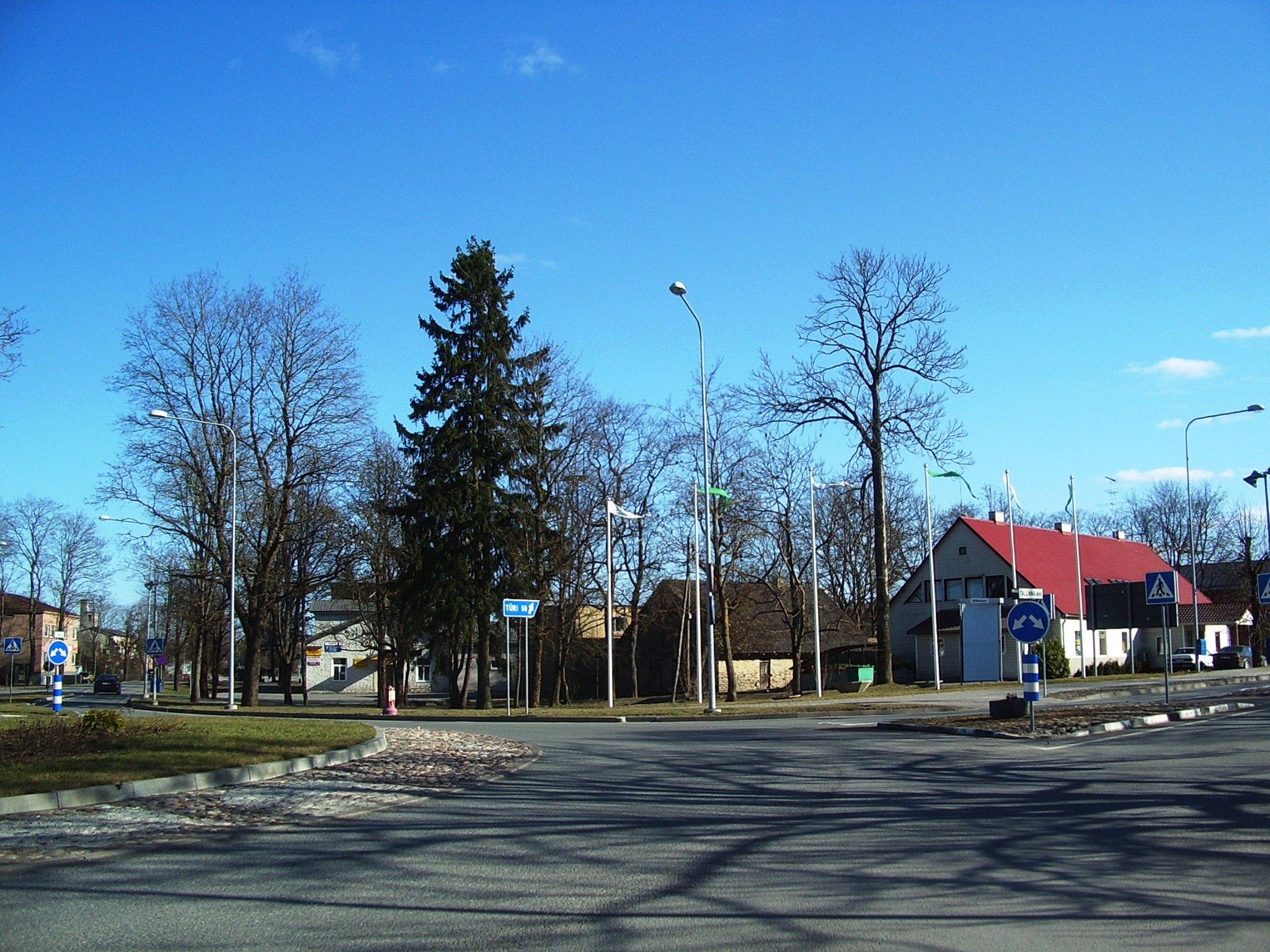 Town center in Rapla